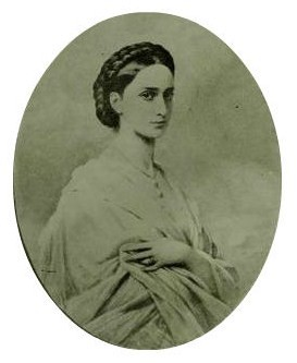 Marie-Antoinette de Tamisier, Gräfin von Stackelberg (1831-1860)